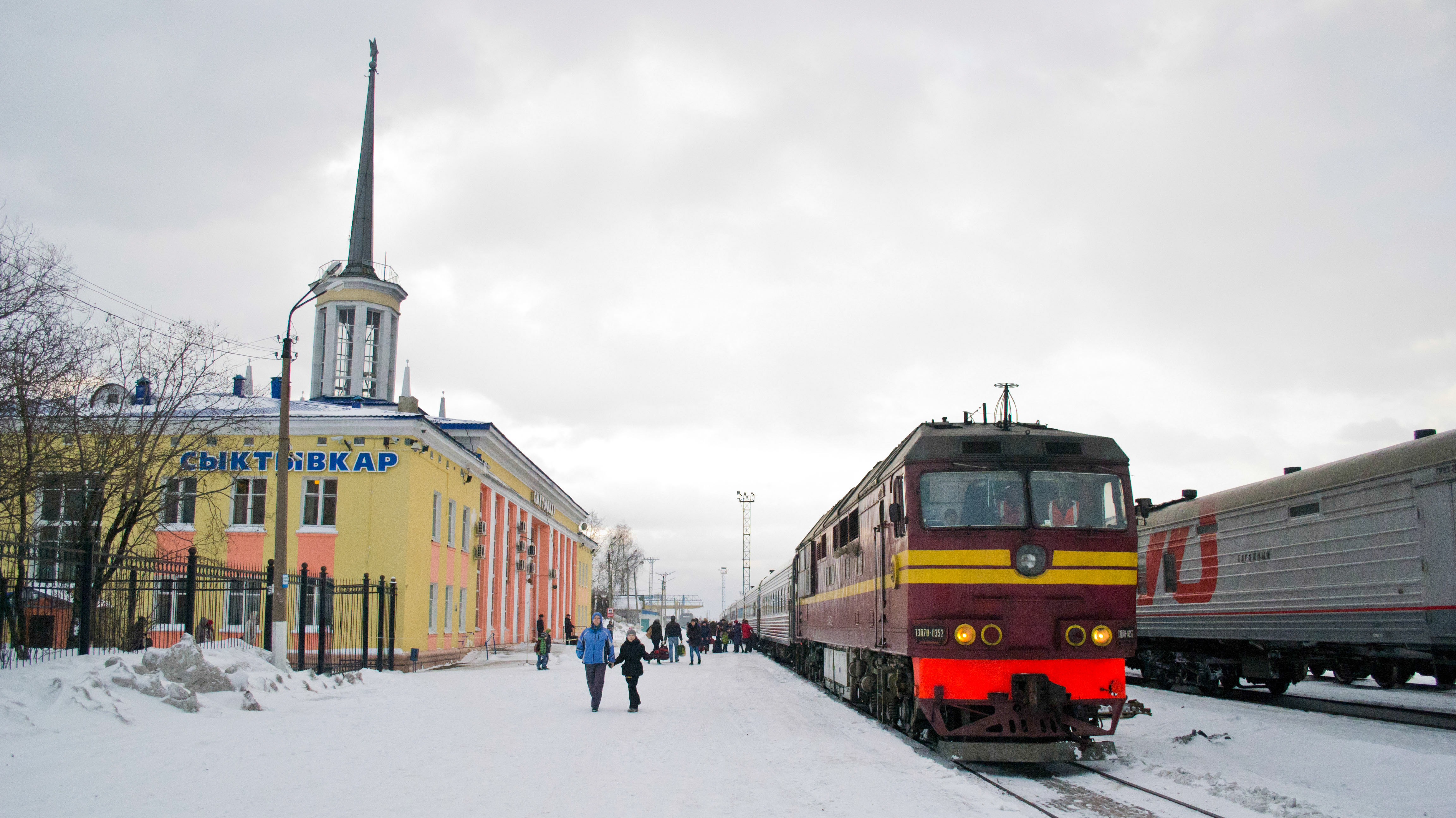 Syktyvkar station platform